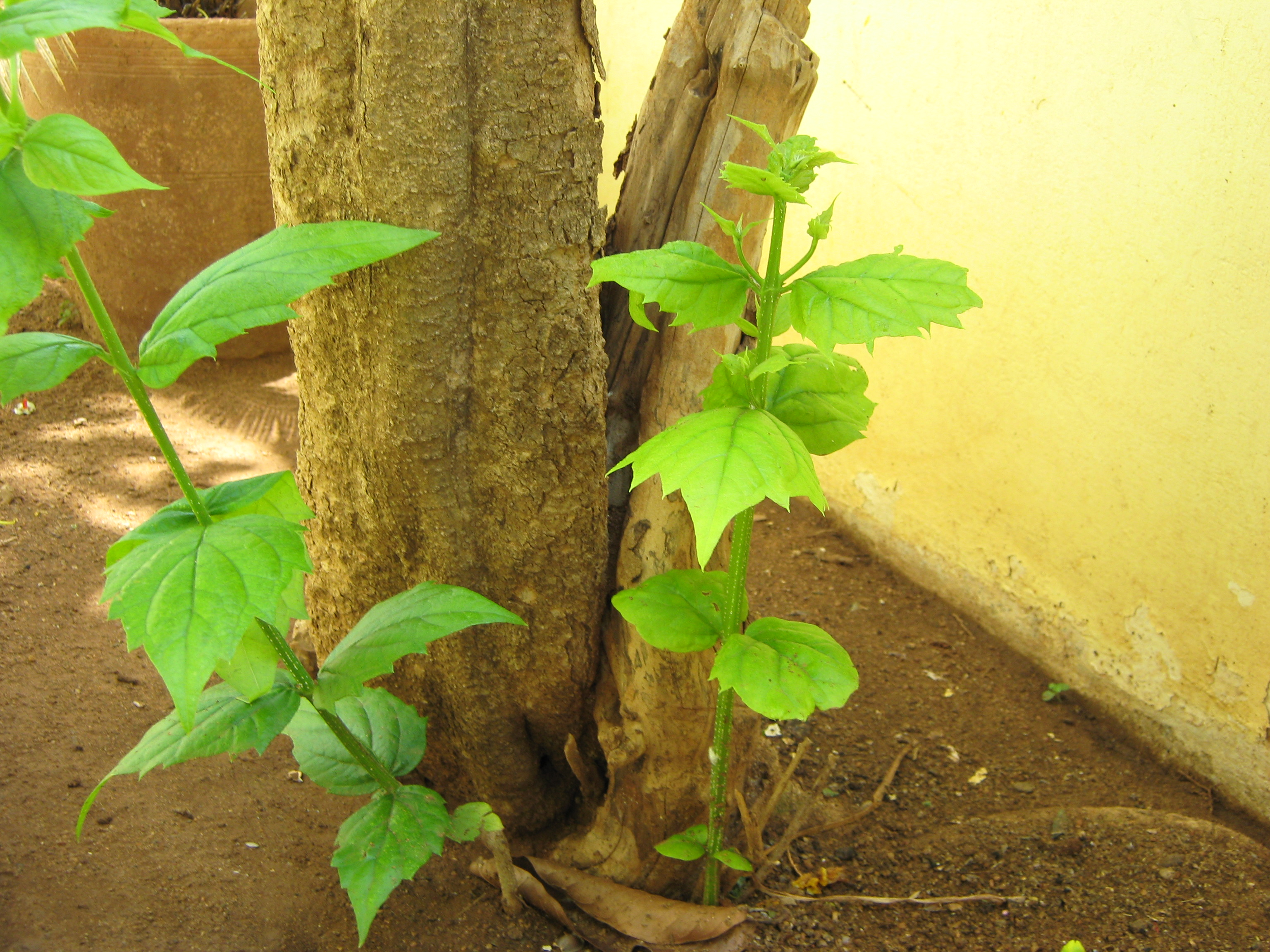 saplings of coral jasmine